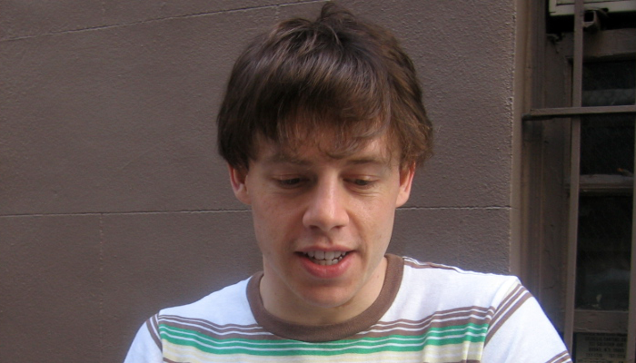 Blake Bashoff at the stage door of Spring Awakening following a performance as Moritz Stiefel.